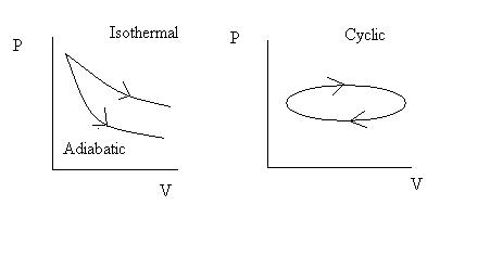 Graphs showing adiabatic, isothermal and cyclic processes